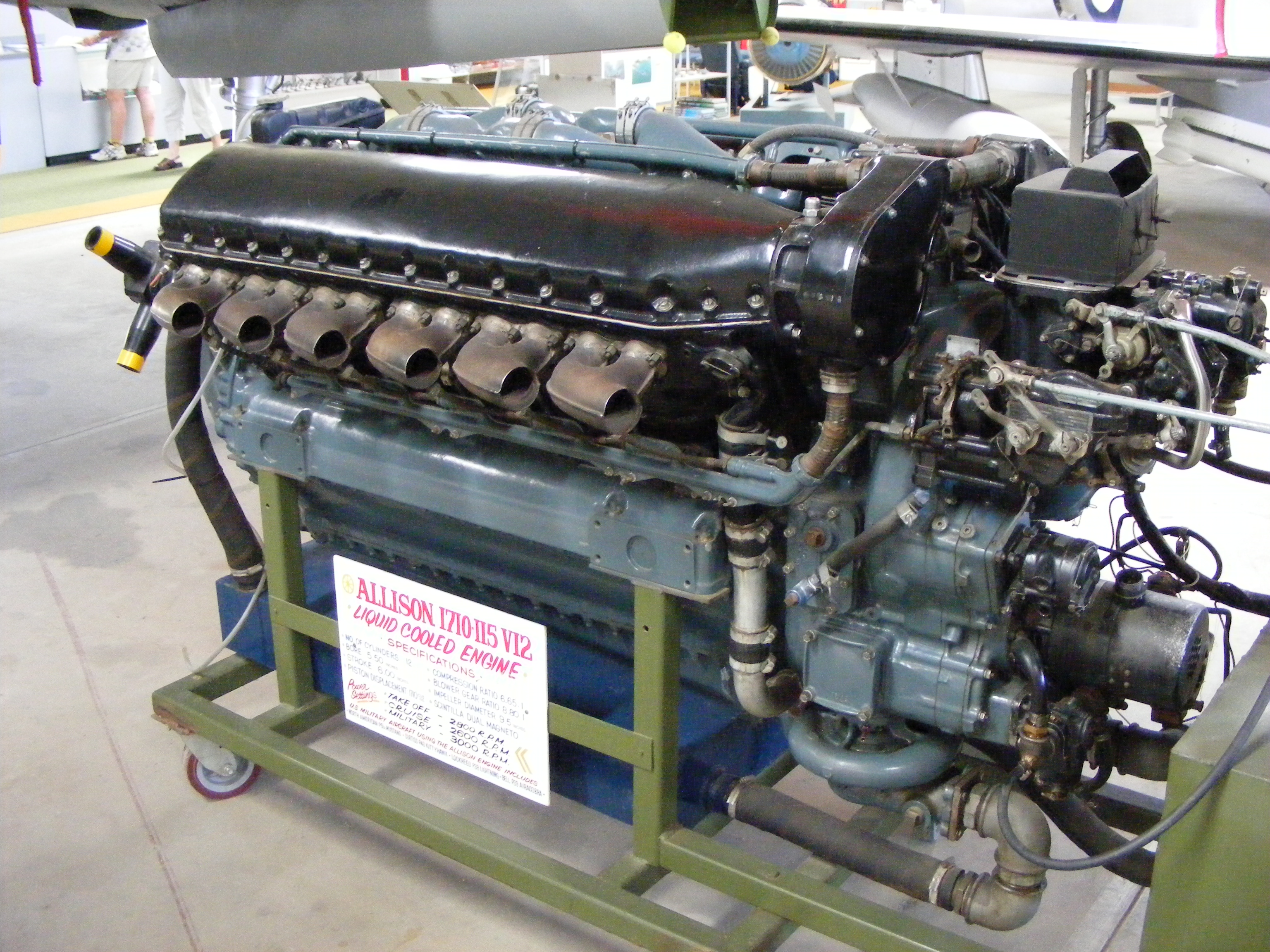 V12 aircraft engine. A running, static display at the Classic Jets Fighter Museum, Parafield airport, Adelaide, South Australia. Model stated as "Allison 11710-115 V12" as used in P51a, P40, P38 lightning and P39 Airacobra aircraft amongst others